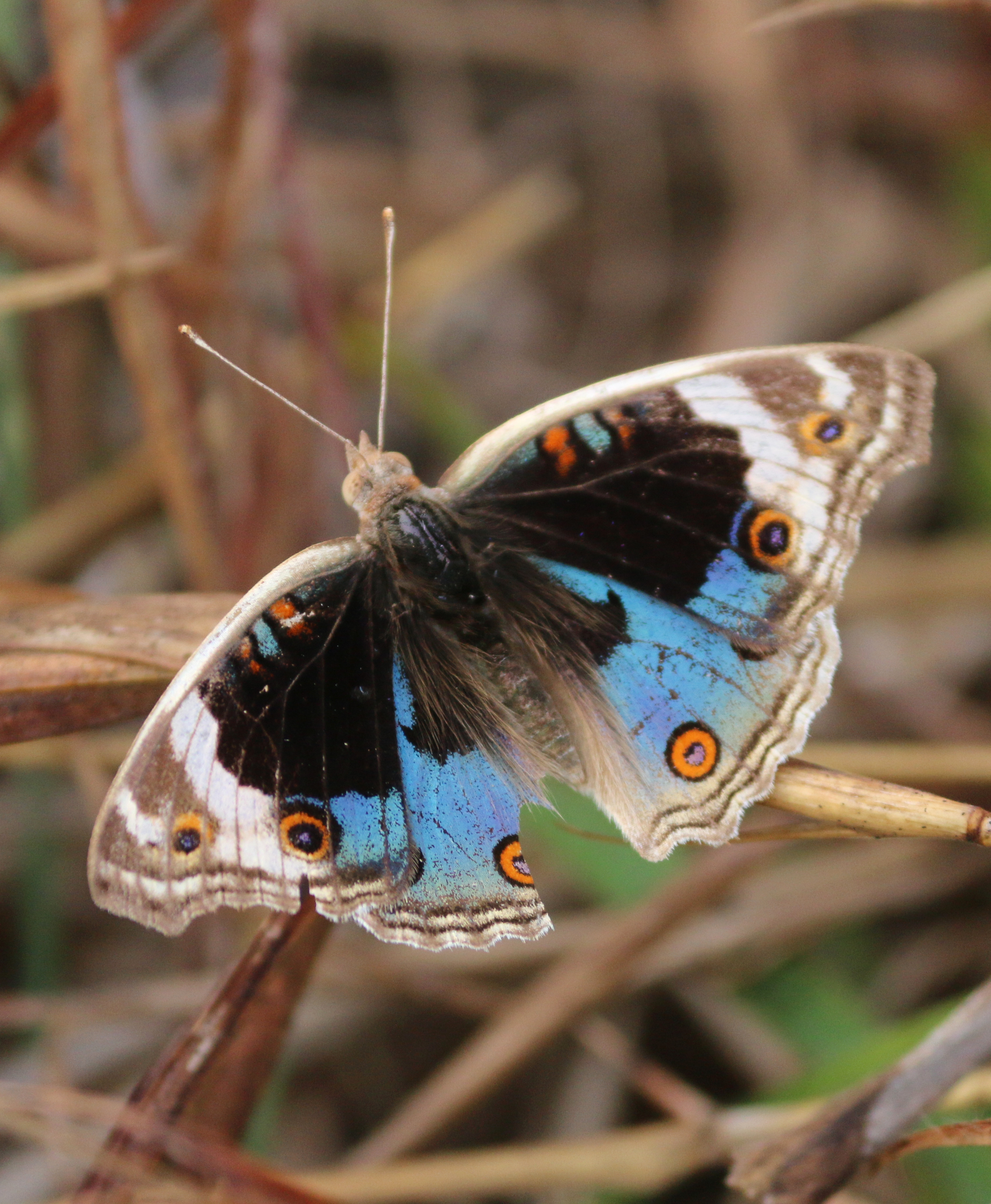 Blue pansy butterfly